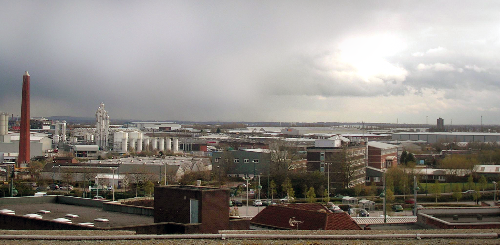 Trafford Park, in Greater Manchester, England as viewed from the multi-storey car park in neighbouring Eccles.